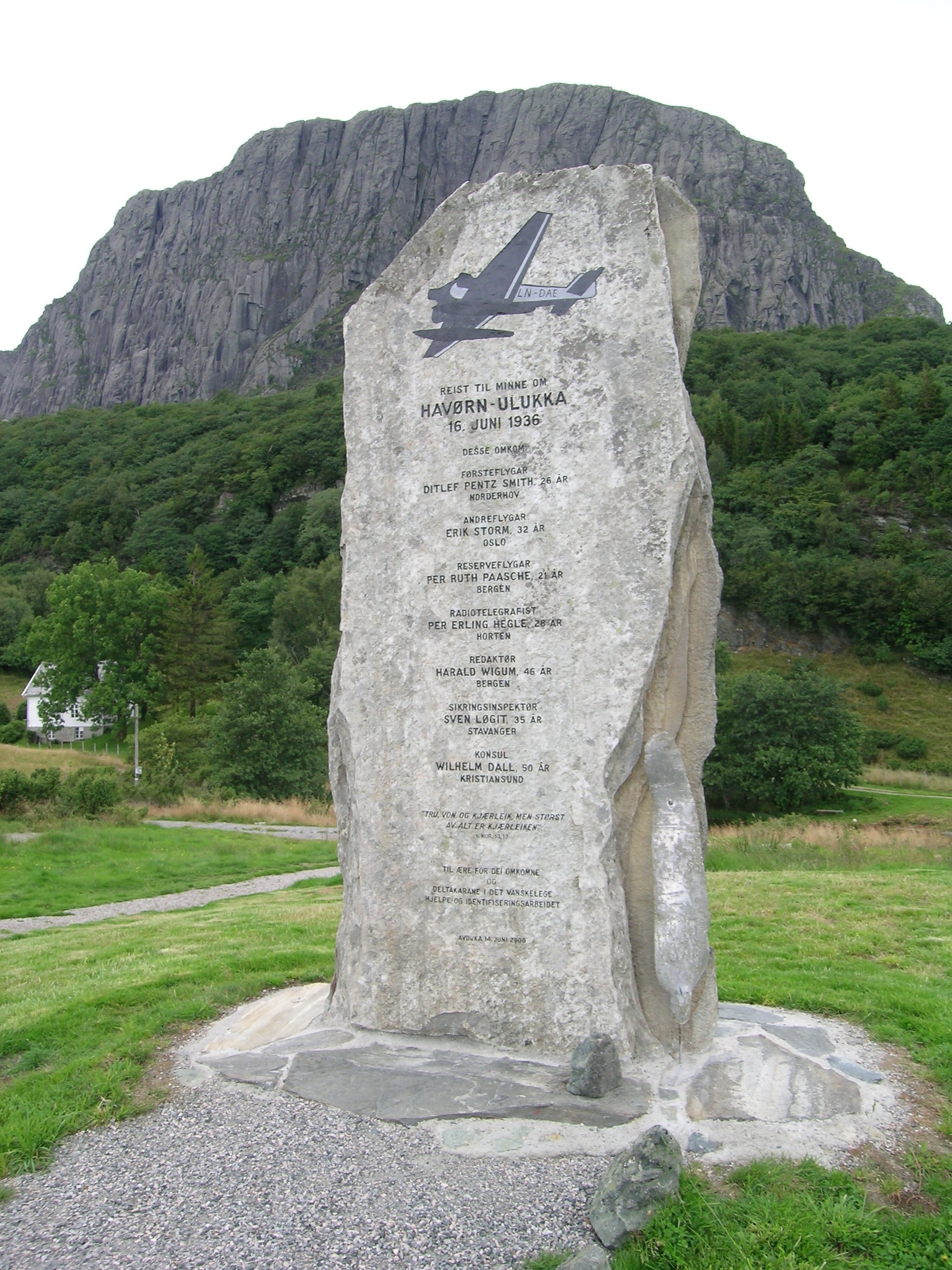 Photo of memorial to those who perished in the Havoern accident (first accident in Norwegian civil aviation), June 16. 1936.